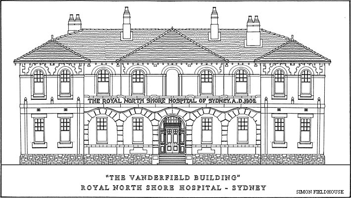 Vanderfield Building - Royal North Shore Hospital - Simon Fieldhouse